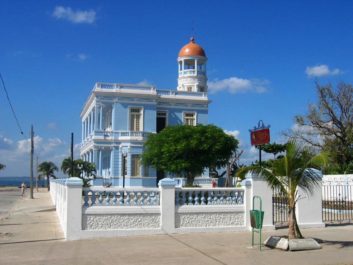 Palacio Azul, a state hotel in Cienfuegos with a cupola, Cuba. ("with the most luxurious room I've ever had for 30 US$".) (precision: 5 m)